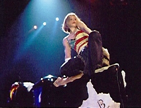 MAdonna performing "Human Nature" on the Drowned World Tour